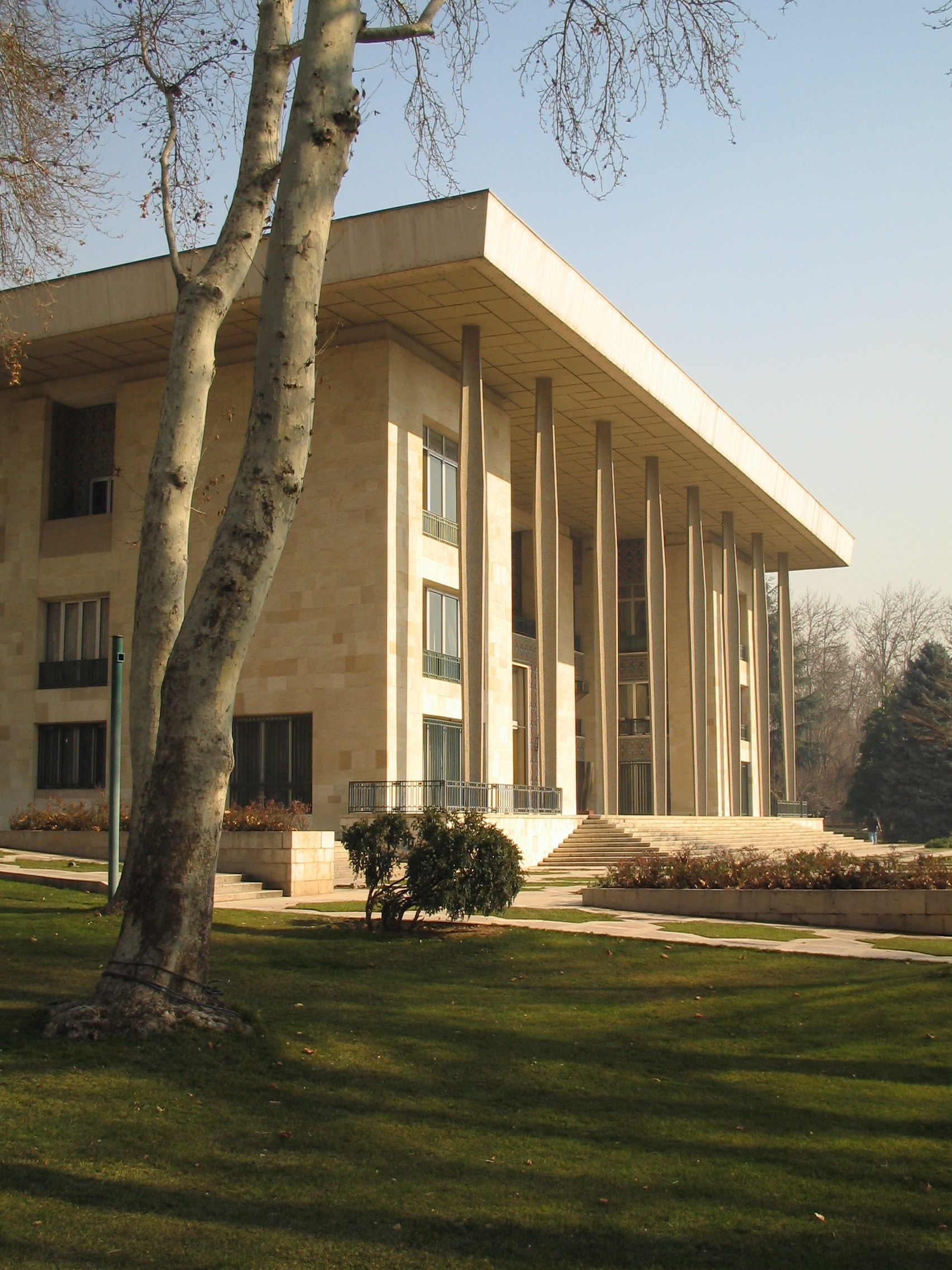 1970s royal palace at the Niavaran Palace Complex — Northern Tehran, Iran.